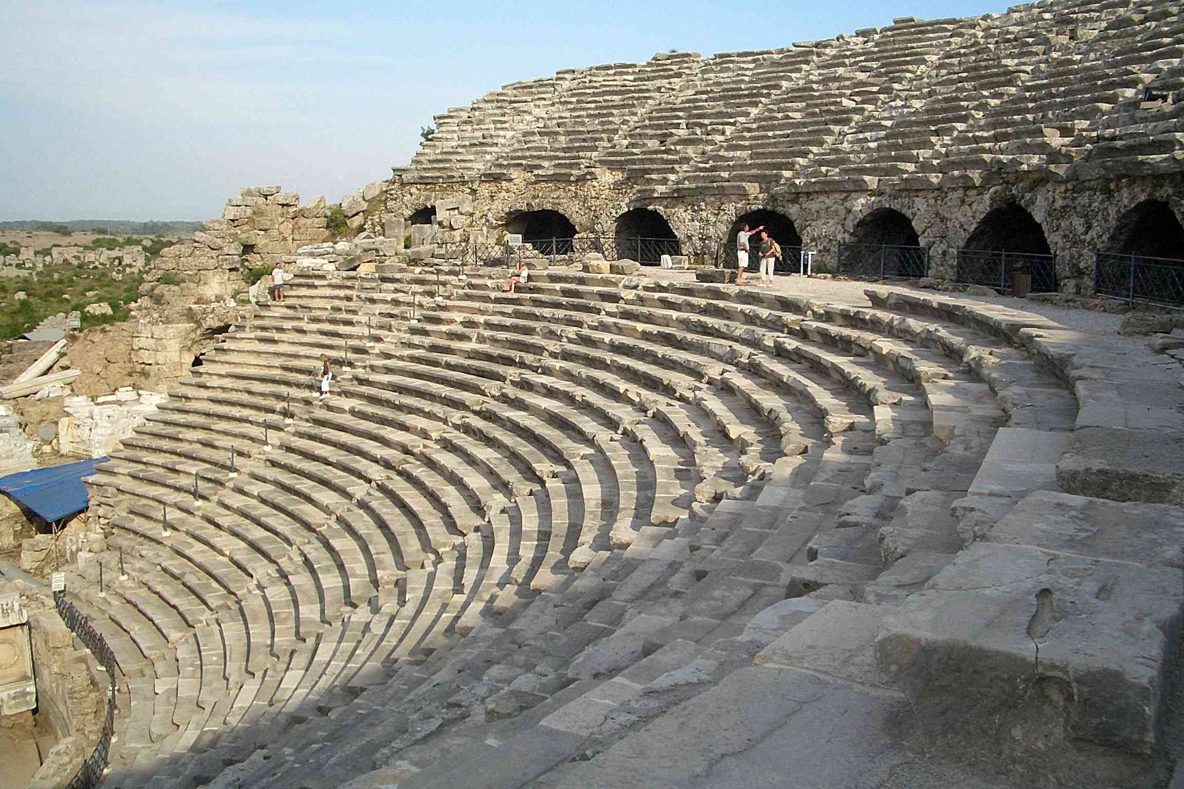 Ancient theatre in Side (Turkey) interior view auditorium